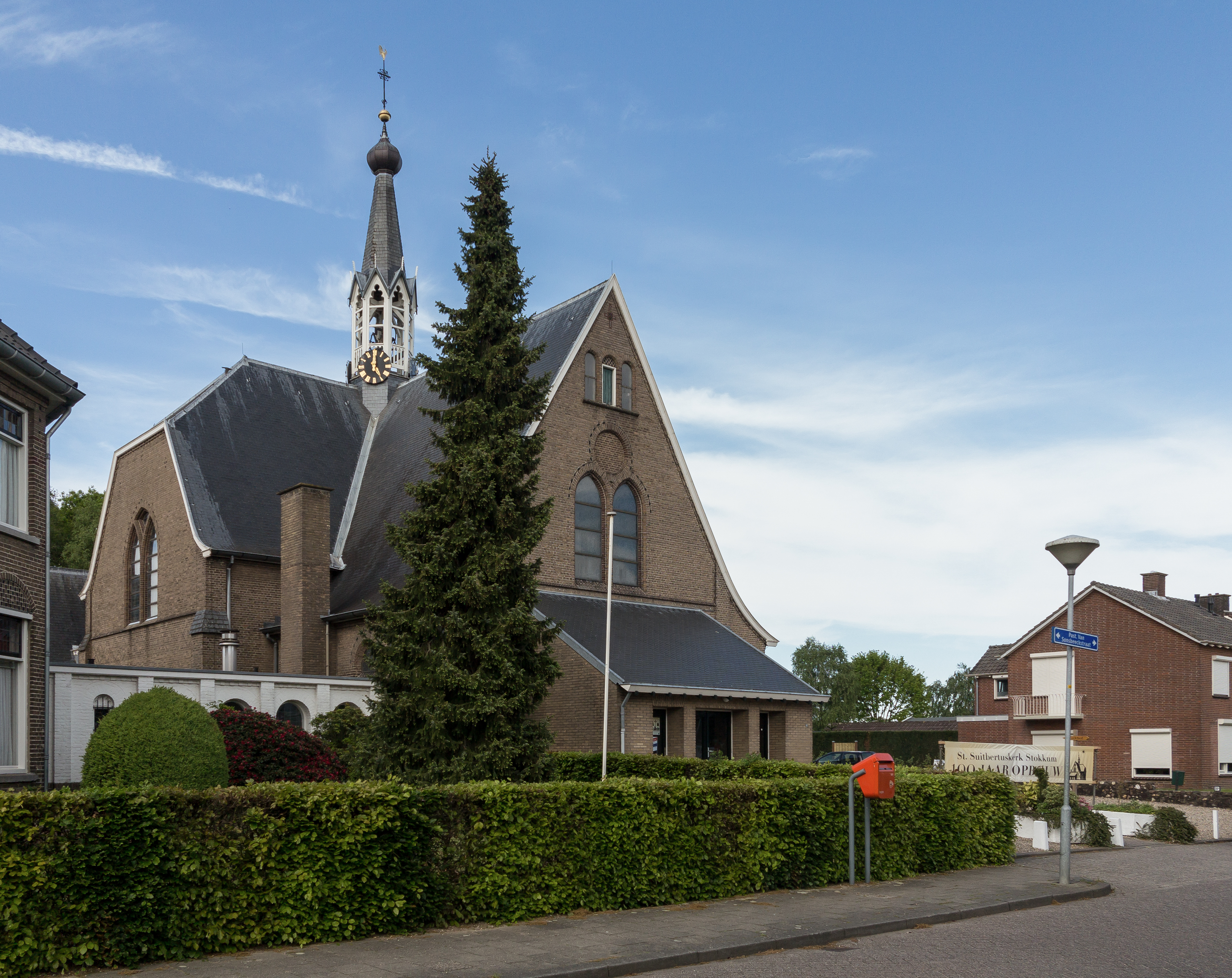 Stokkum, catholic church: Sint Suitbertus